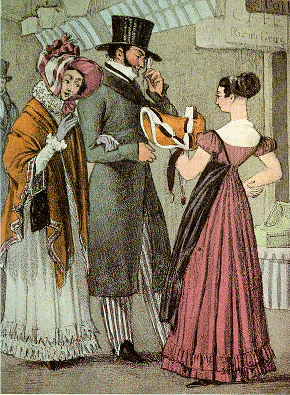 Cropped version of Image:1822-Millinery-shop-Paris-Chalon.jpg; see that image's page for detailed description.